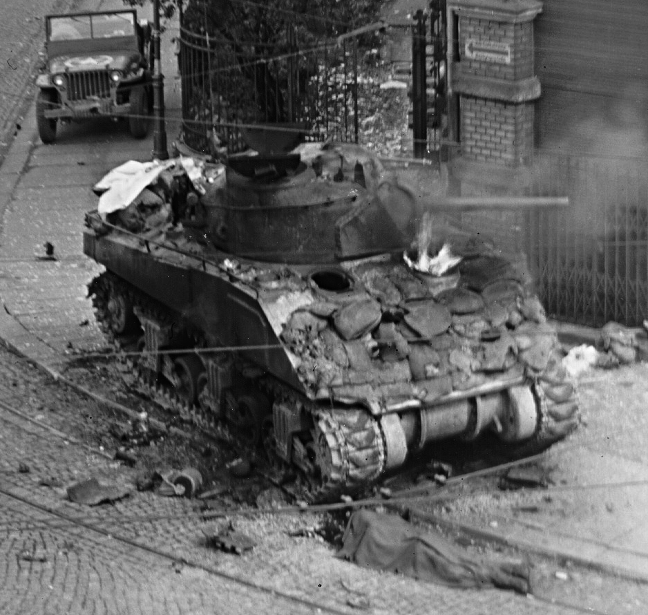 C 206454 - M-4 tank of Armored battalion attached to 2d Infantry Division, U.S. First Army, burns in street of Leipzig, Germany. 741st Tank Battalion attached to 23d Infantry Regiment, 2d Infantry Division. 18 April 1945 (T/5 R. W. Crampton)